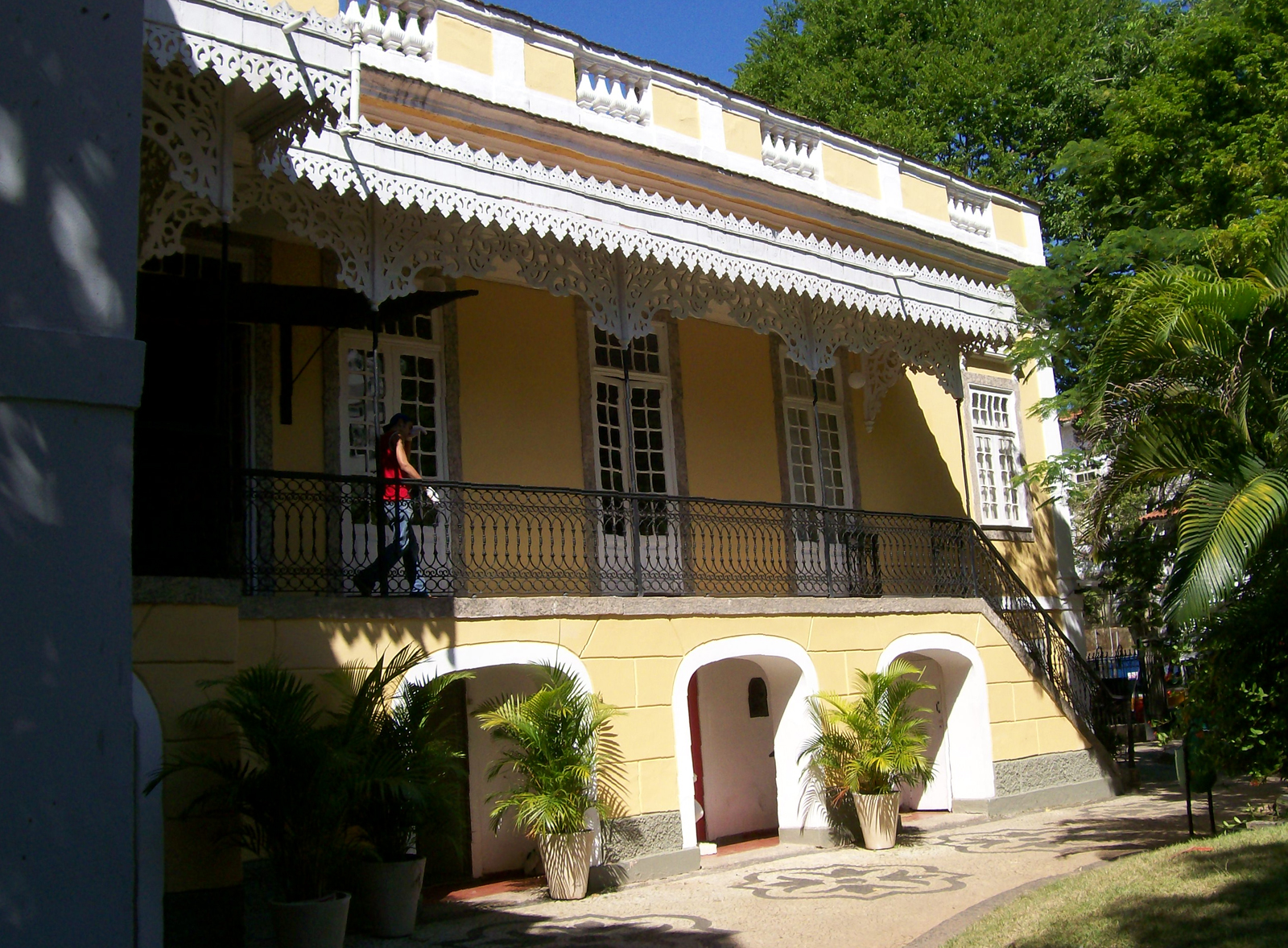 My own photo of Museu do Índio 2007